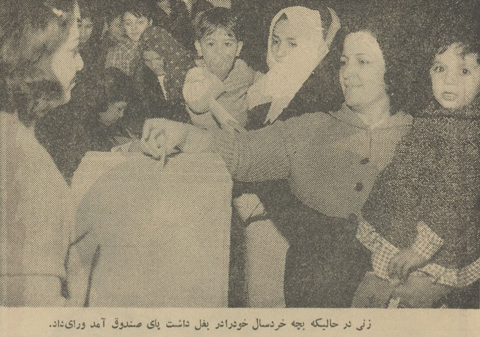 Iranian women voting during White Revolution